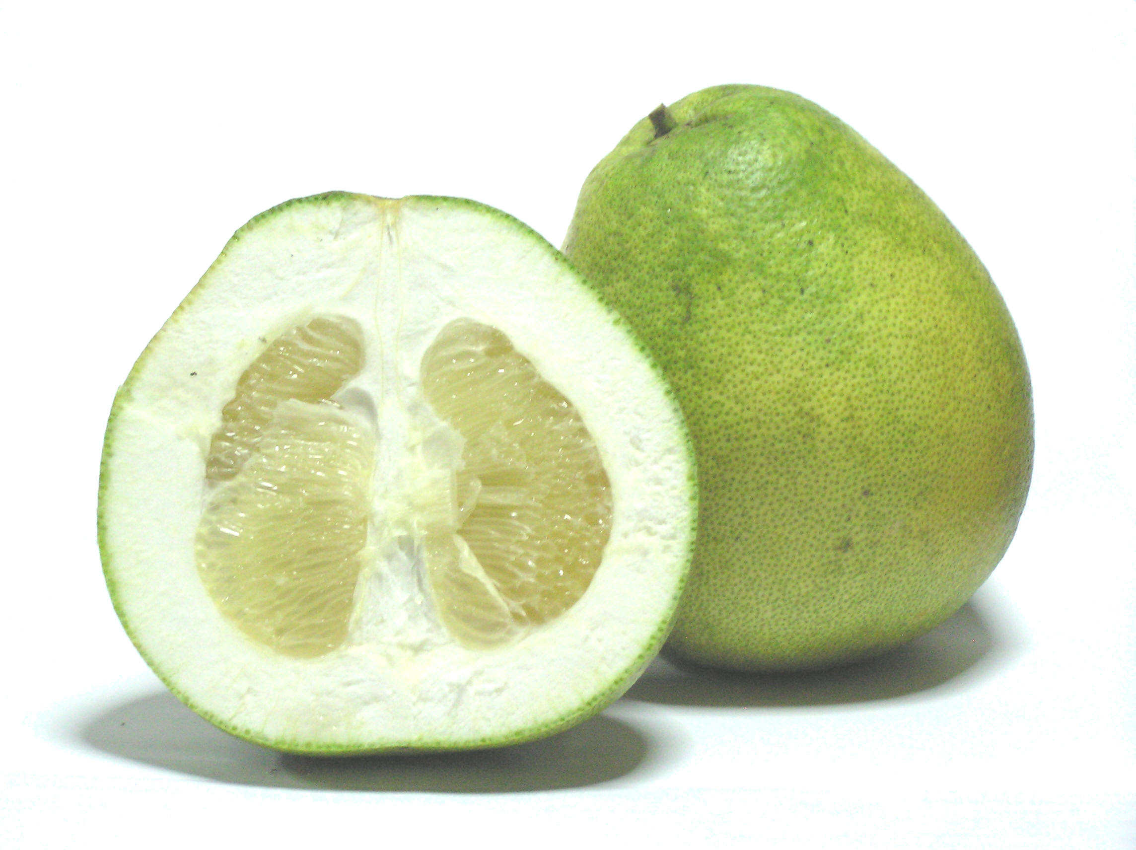 Citrus grandis 'Honey White Brand' or 'Khao Nam Phueng' grown in Nakhon Chai Si, Nakhon Pathom province in Thailand. ส้มโอขาวน้ำผึ้ง ณ นครชัยศรี